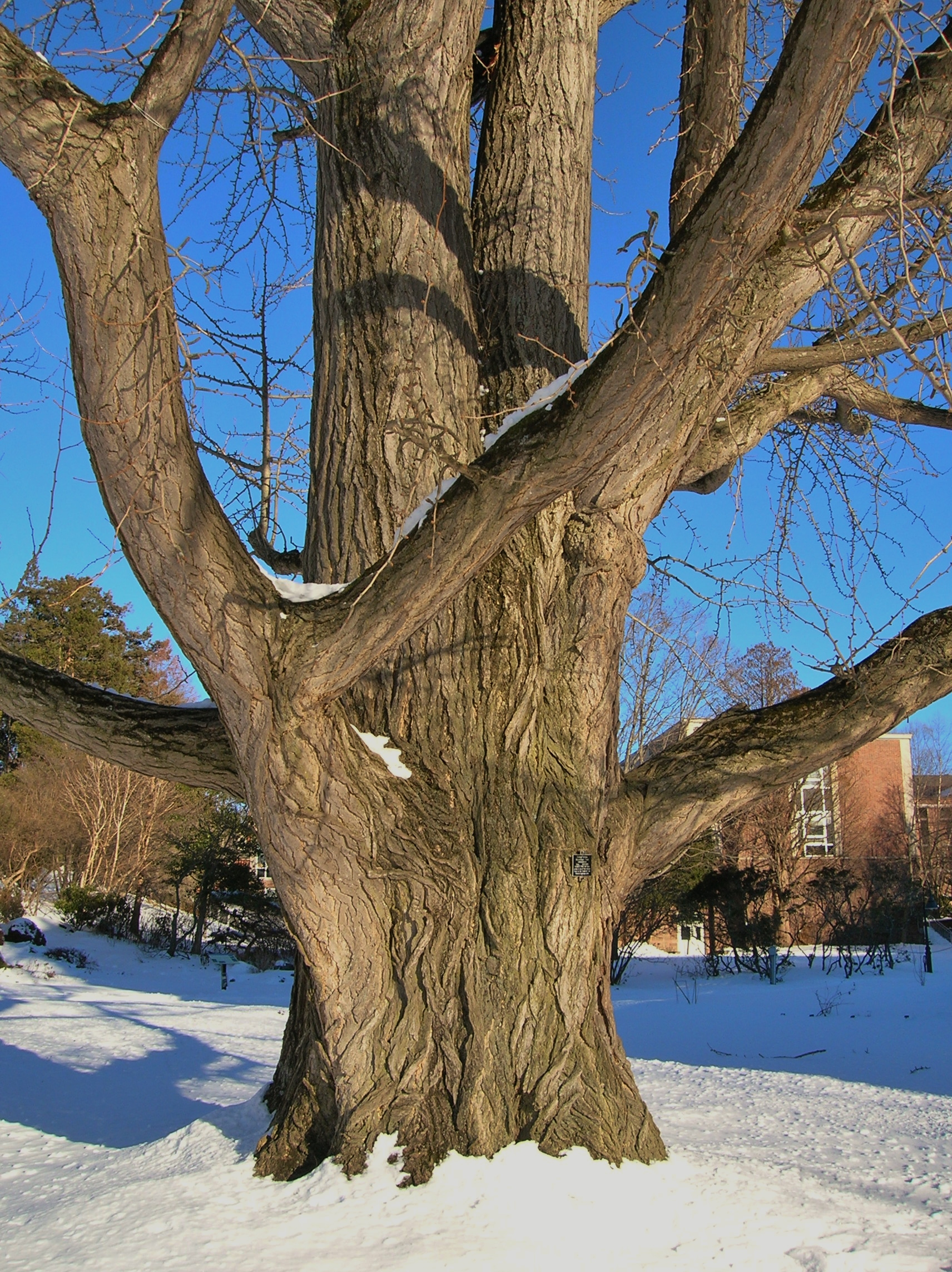 Photo of ginkgo tree located on the Smith College campus in Northampton, Massachusetts. Photo taken January 25, 2015.